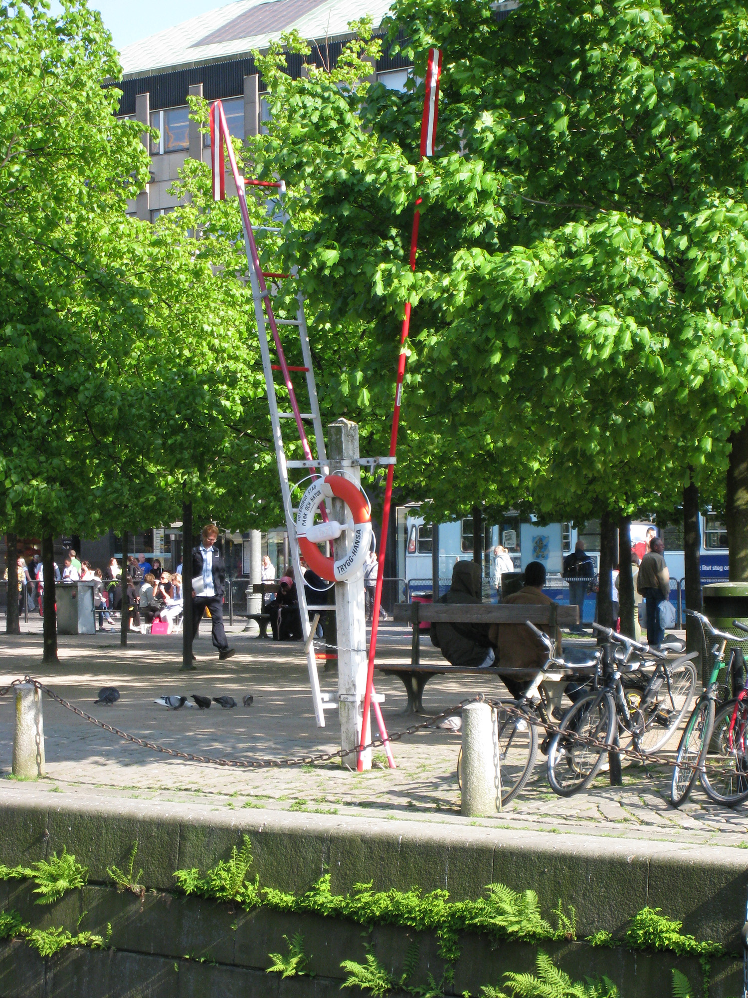 Swedish standard equipment for life rescue in water